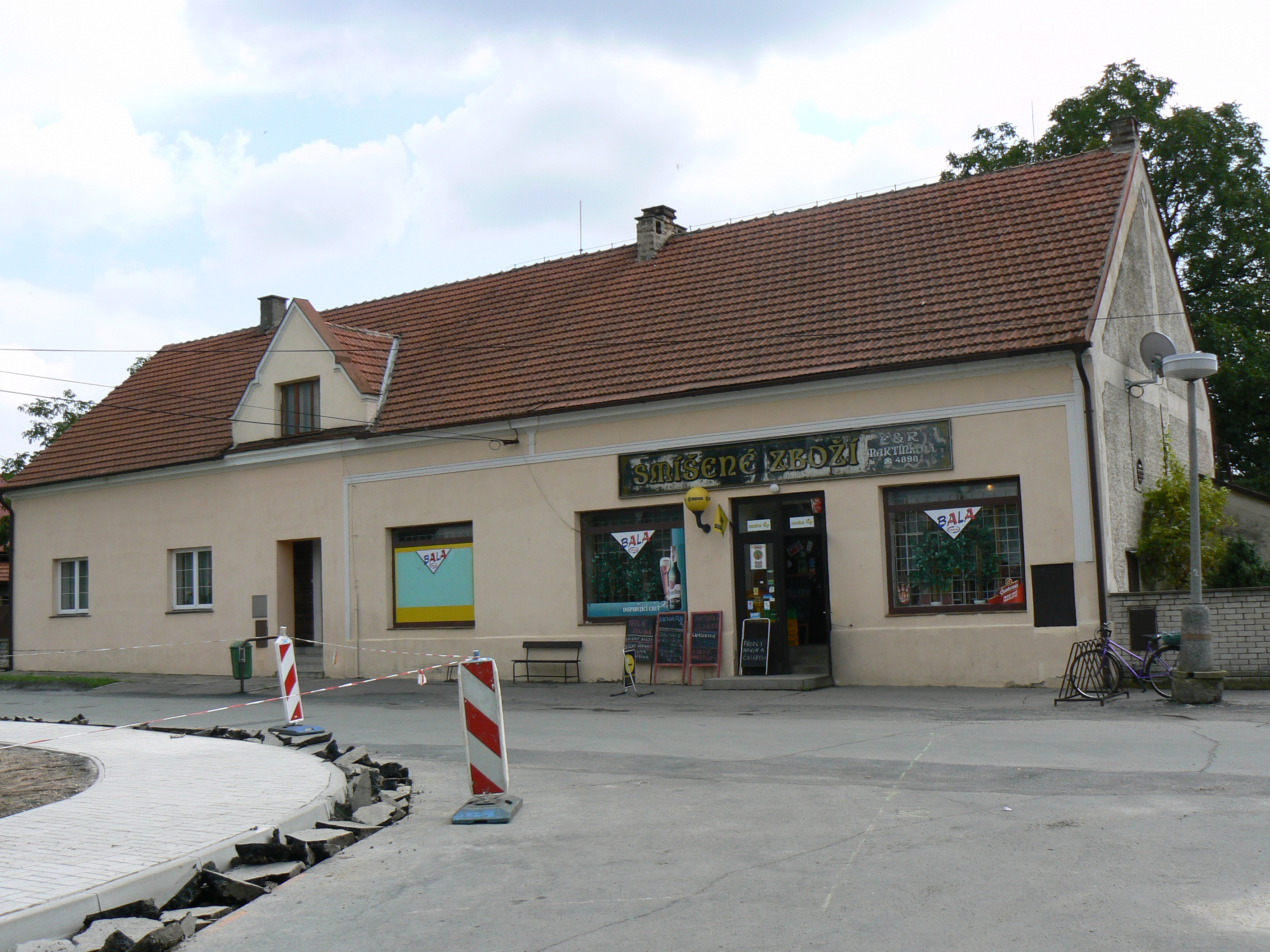 Polabec (Poděbrady) Shop (Miscelaneous goods)